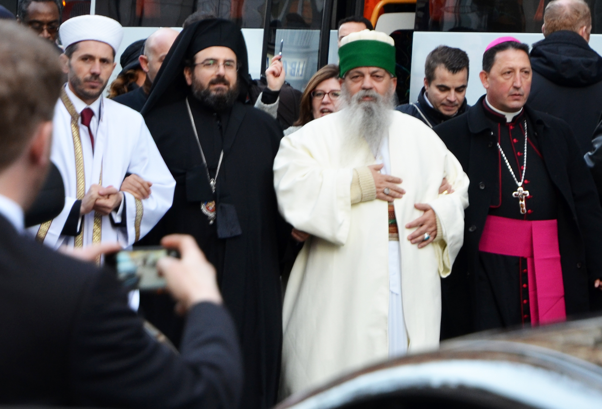 Representatives of Albanian religious communities at the Republican Marches honouring the victims of the Charlie Hebdo shooting in Paris on January 11, 2015 – from left: Ylli Gurra, mufti of Tirana Andoni Merdani, bishop of Kruja, Orthodox Autocephalous Church of Albania Edmond Brahimaj, global head of the Bektashi order Lucjan Avgustini, Bishop of the Roman Catholic Diocese of Sapë